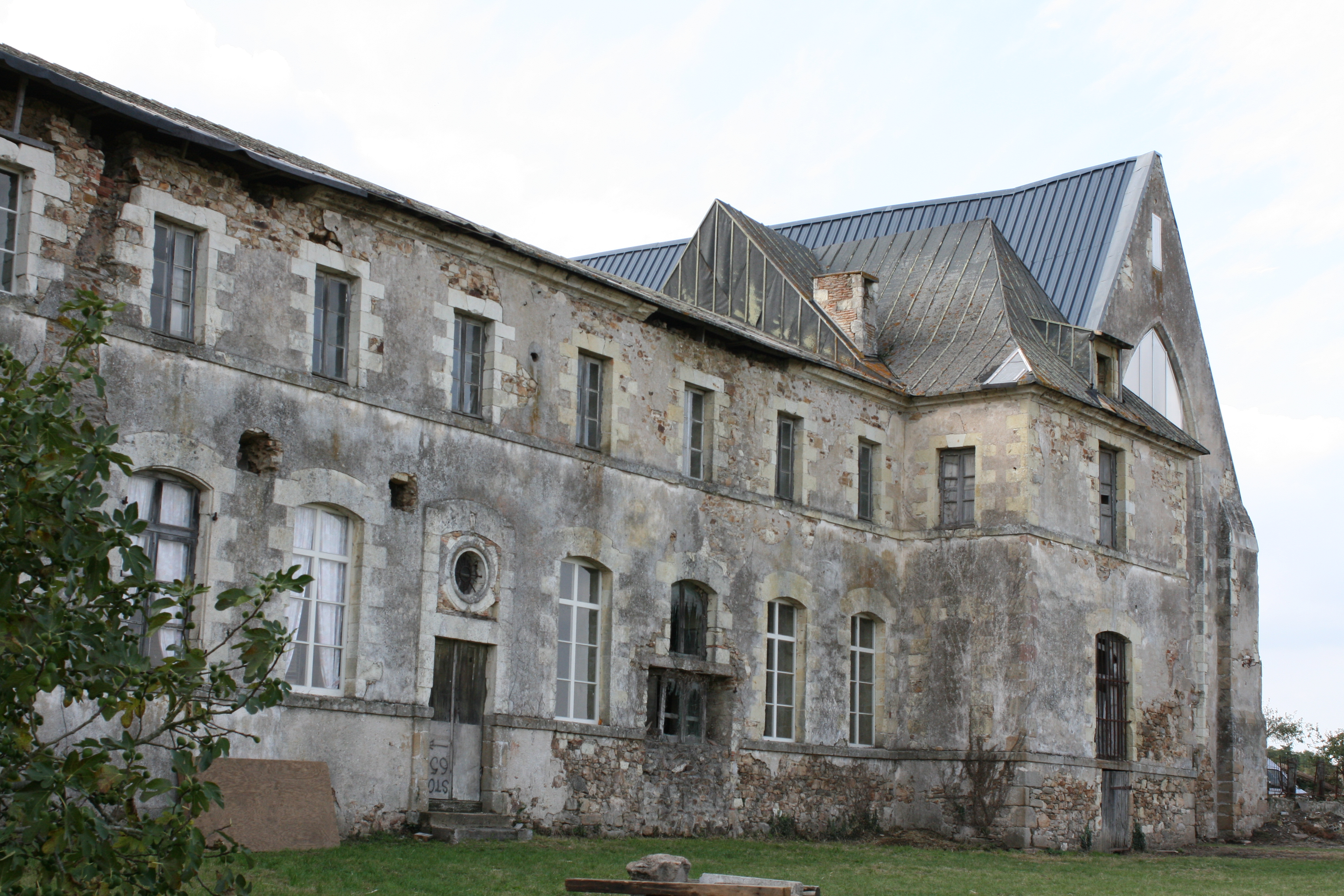 Main view of the abbaye This building is en partie classé, en partie inscrit au titre des Monuments Historiques. .